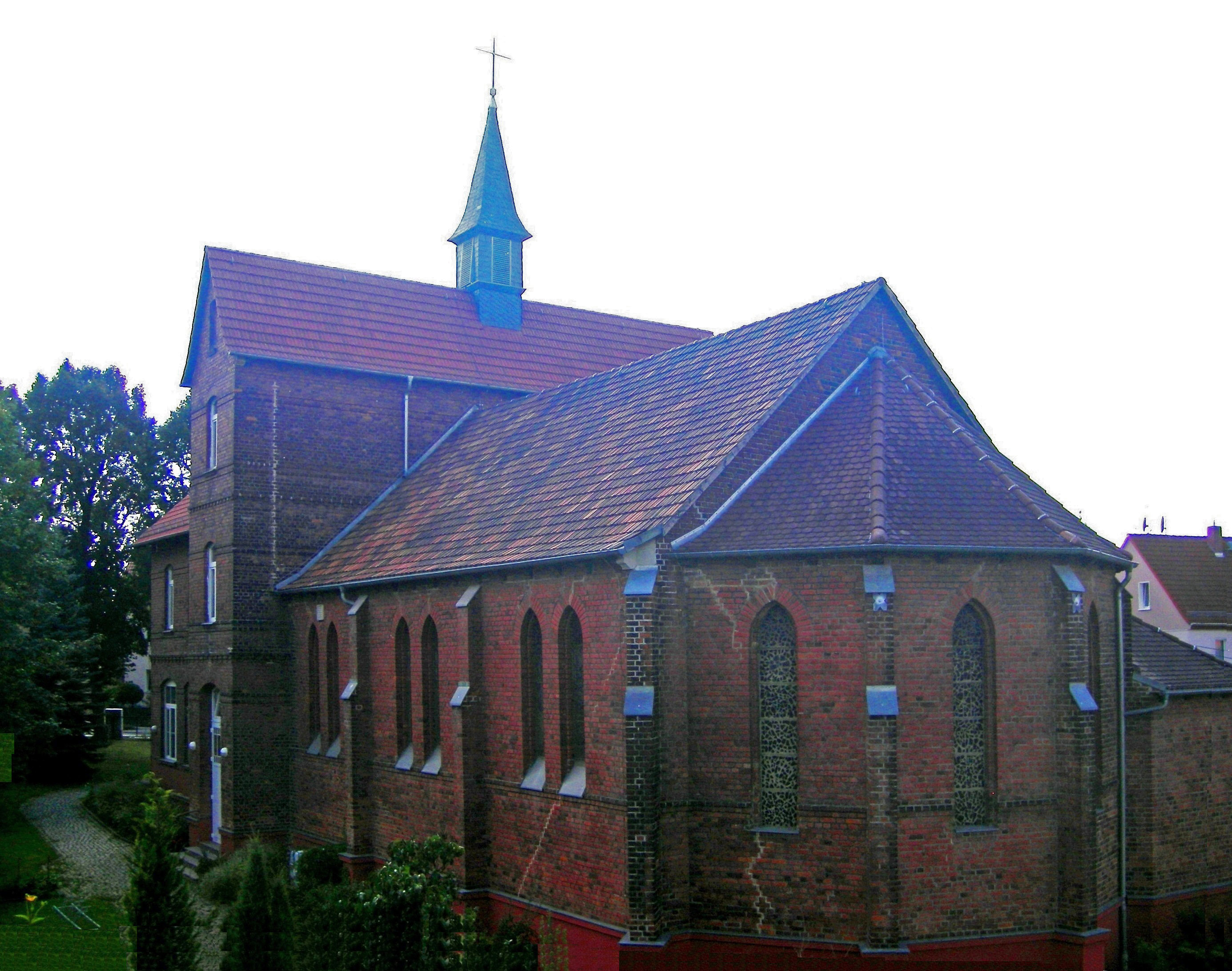 Catholic church in Rositz near Altenburg/Thuringia